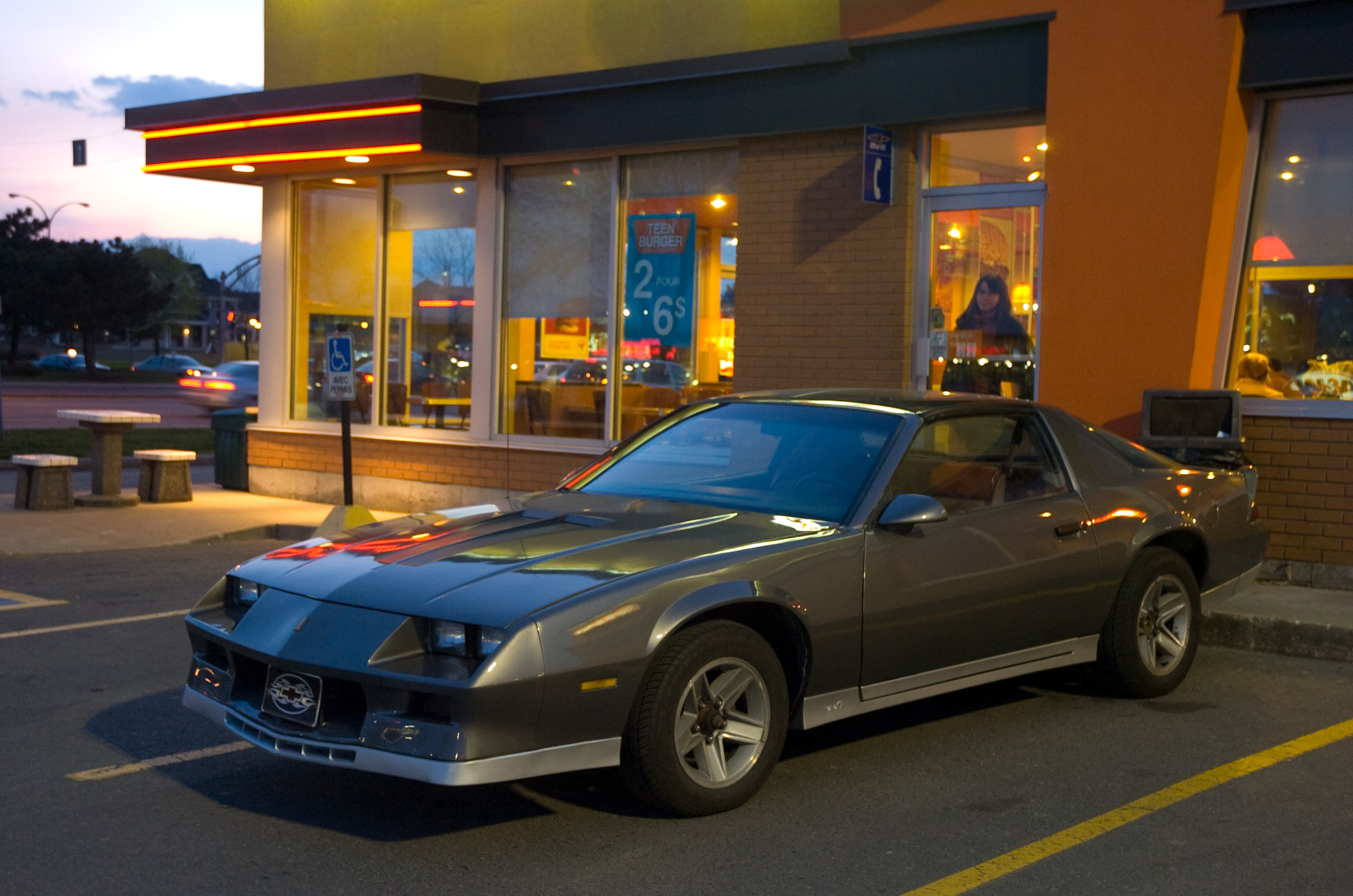 Chevrolet Camaro Z28, 1982-84 body style